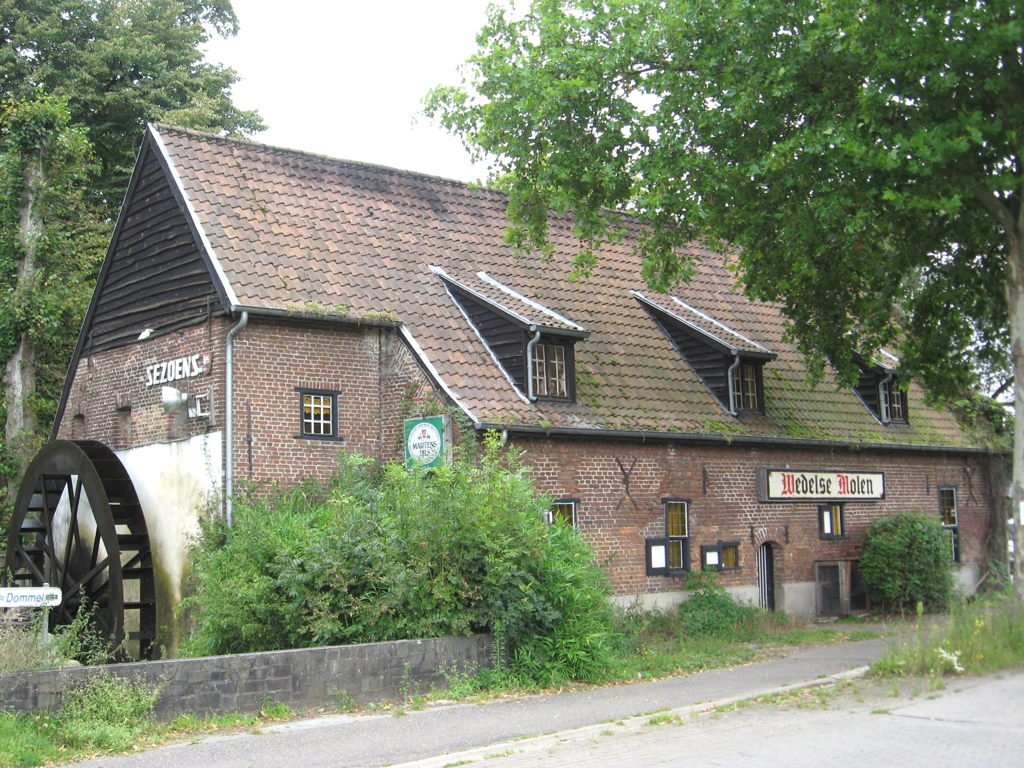 Wedelse Molen at the Dommel in Overpelt, Limburg, Belgium